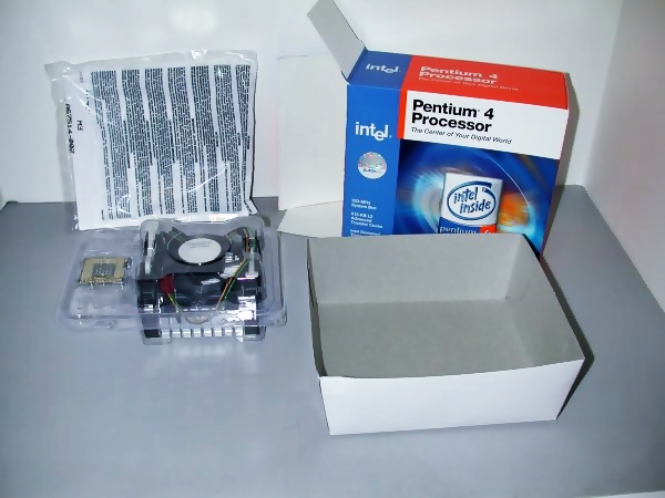 Boxed 423-pin Pentium 4 1,5 GHz Willamette processor with its manuals and user guides